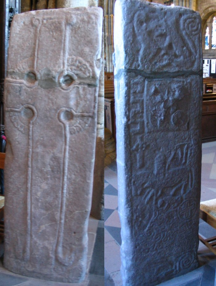 Pictish stone (front and back) found in Dunblane. Displayed in Dunblane Cathedral. -- Picture taken by me.